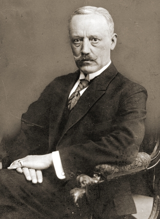 Jerzy Goscicki (1879-1946) –Polish politician, deputy to Duma of Russia Empire (1912-1916), Minister of Agriculture of Poland (1923)